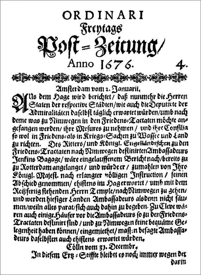 Ordinari Freytags Post-Zeitung issue dated 2 January 1676